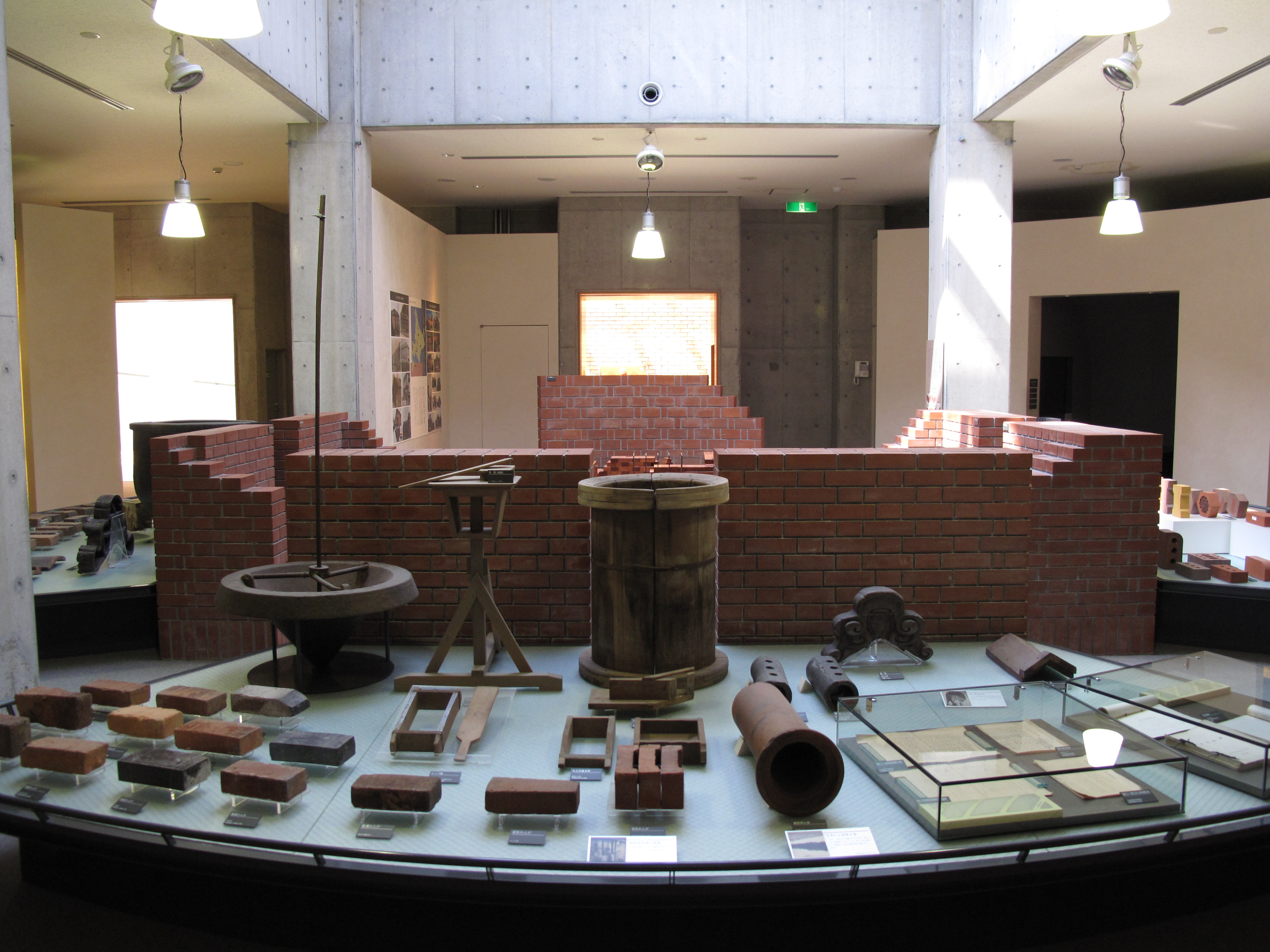 "Brick Data Room" (EBETSU City Ceramic Center) , Ebetsu-shi Hokkaido, Japan